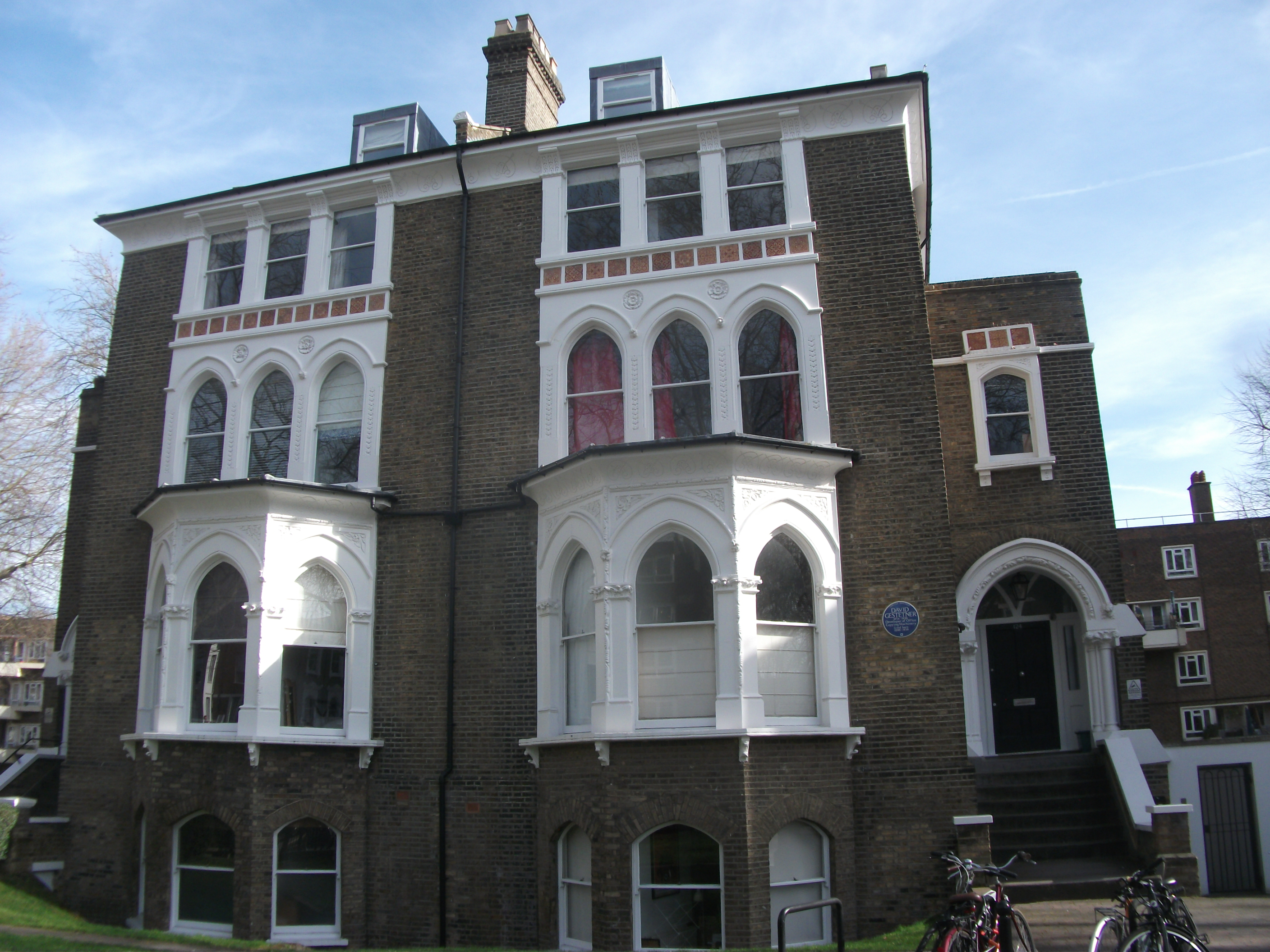 The Gestetner House in London.